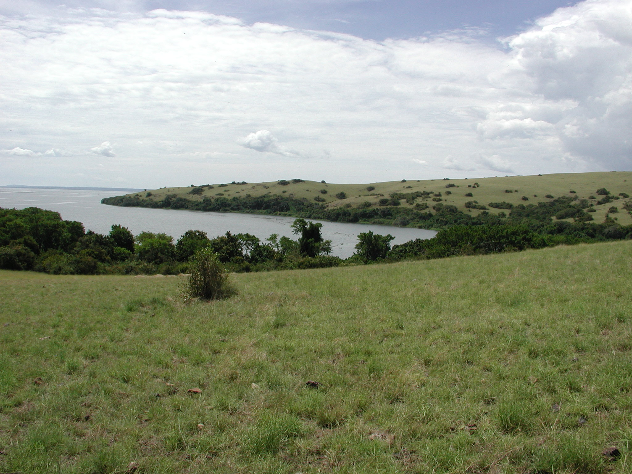 Ndere Island, Lake Victoria, Kenya